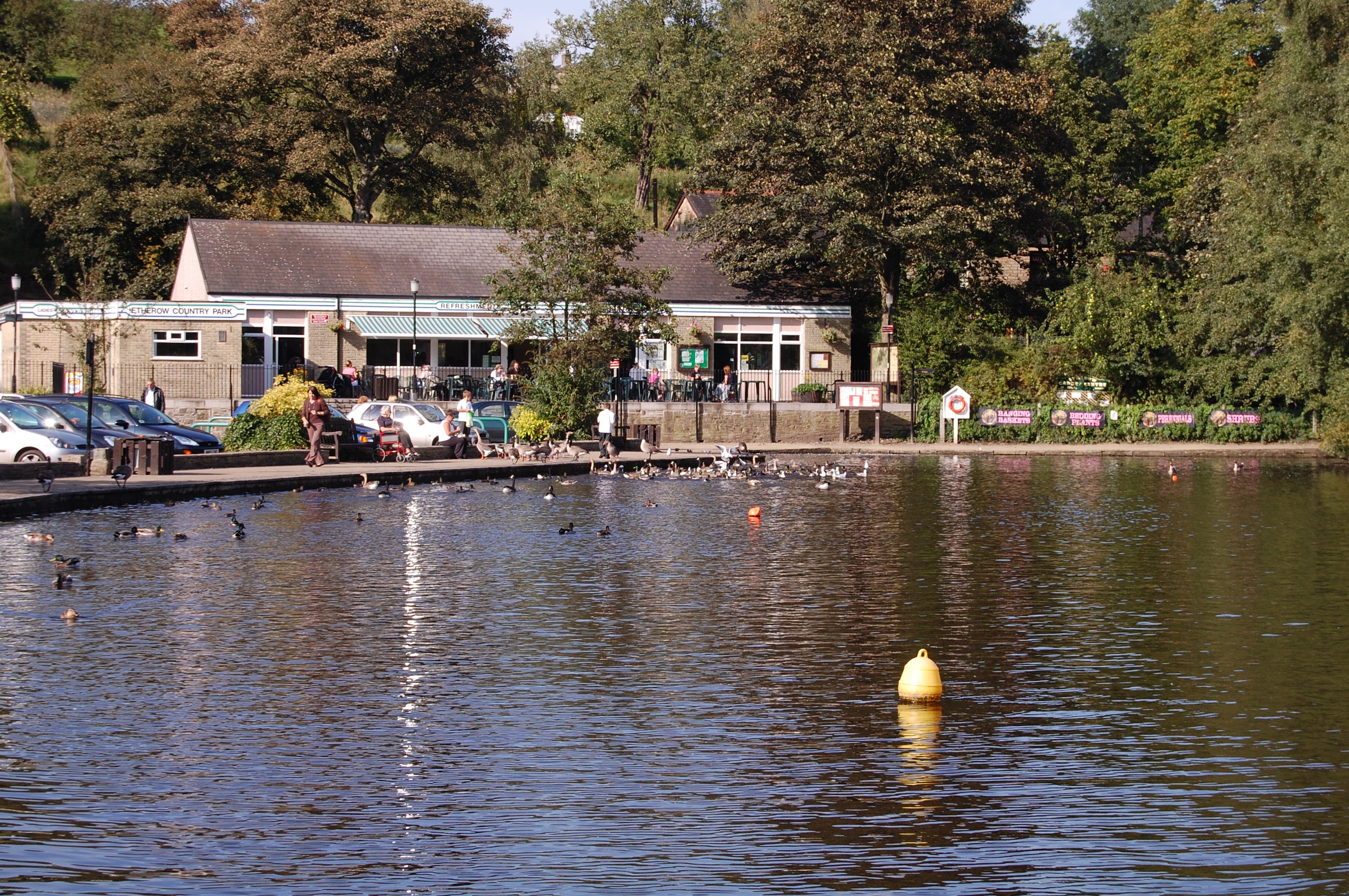 Etherow Country Park was one of England's first country parks. Originally it was an industrial area incorporating a mine, a mill and a mill pond. The River Etherow flows through the park and is the source for the mill pond. With the decline of industry, the mill pond and park have become a nature reserve and a place for people to spend time walking and taking in the peaceful surroundings. The café and visitor centre are operated by Stockport Metropolitan Borough Council.